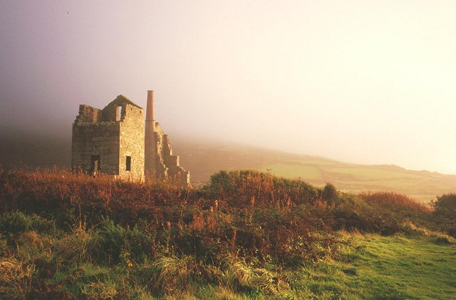 Rosemergy Mine. A surviving building is used as accommodation for climbers.